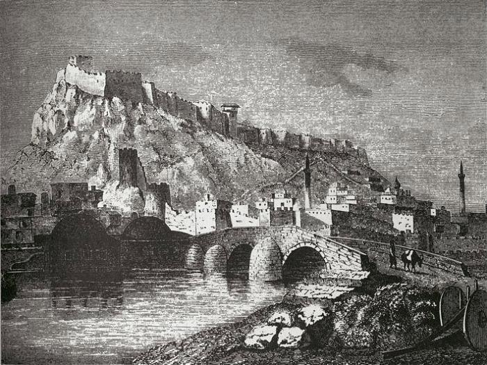 Kars Fortress